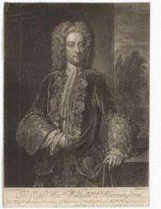 Portrait of William Stanhope, 1st Earl of Harrington (1683?-1756)